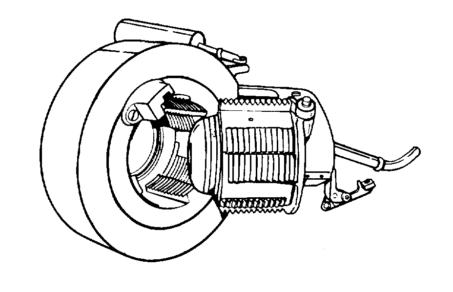 Stepped-thread interrupted-screw breech block